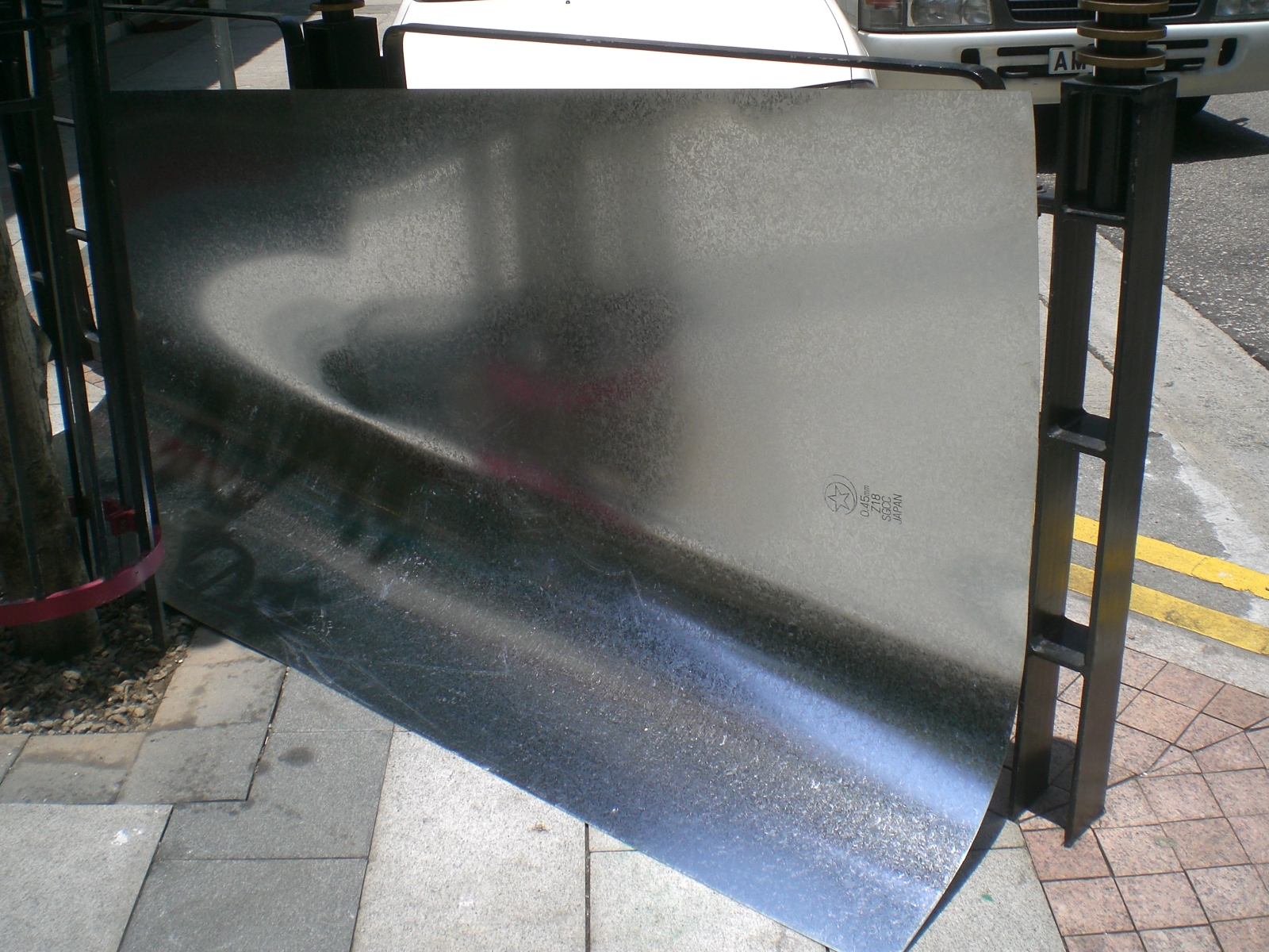 Zinc